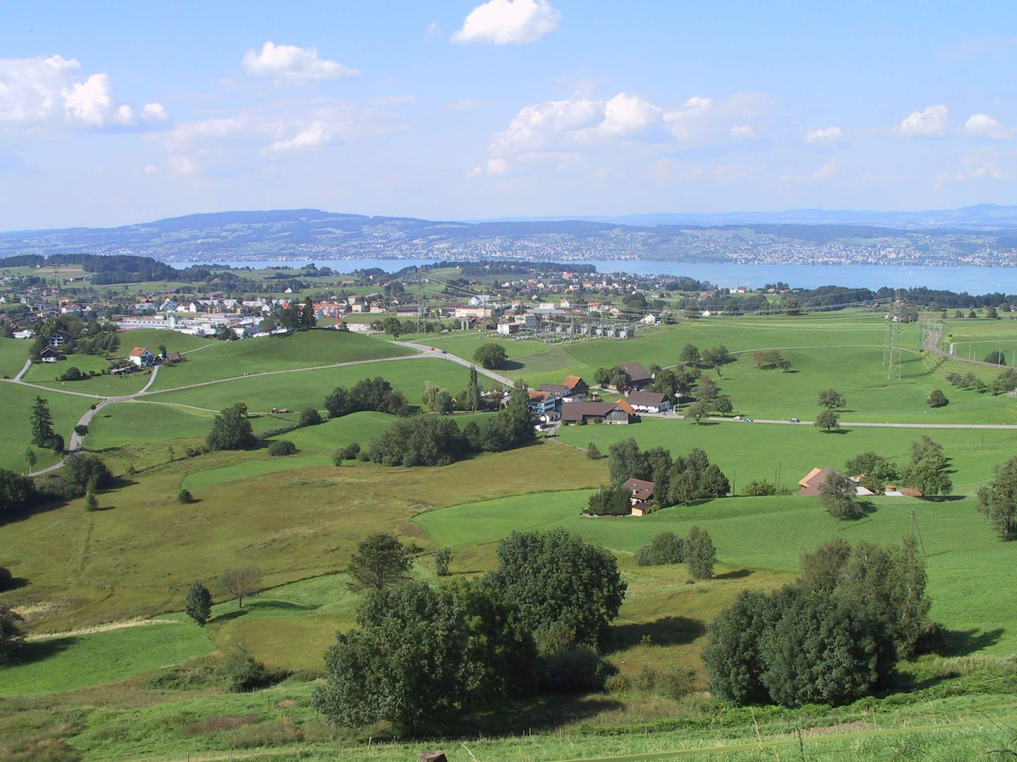 Hütten (ZH) : Lake Zürich, Hüttnersee (left) and Samstagern etc.